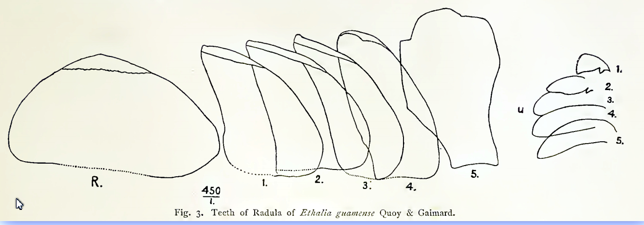 Radula of Ethalia guamensis (Quoy & Gaimard, 1834); family Trochidae